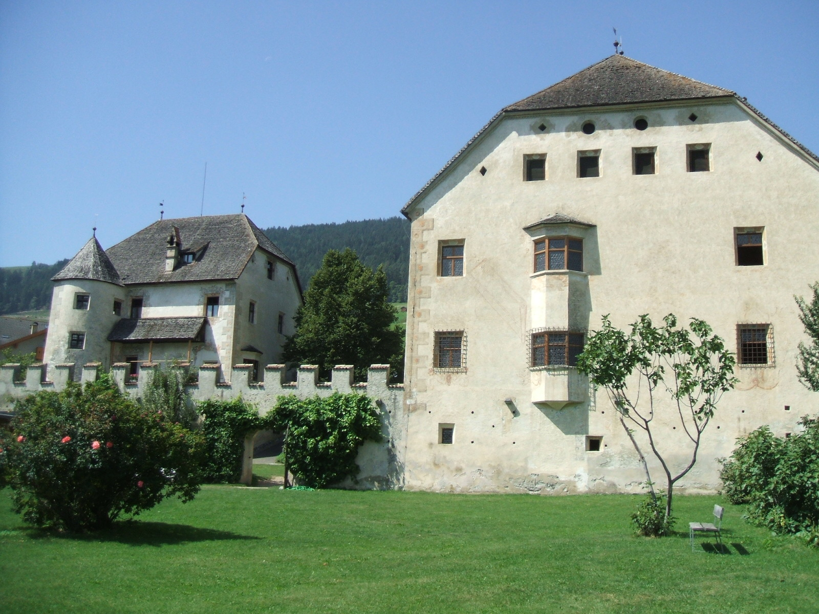 Velturno castle